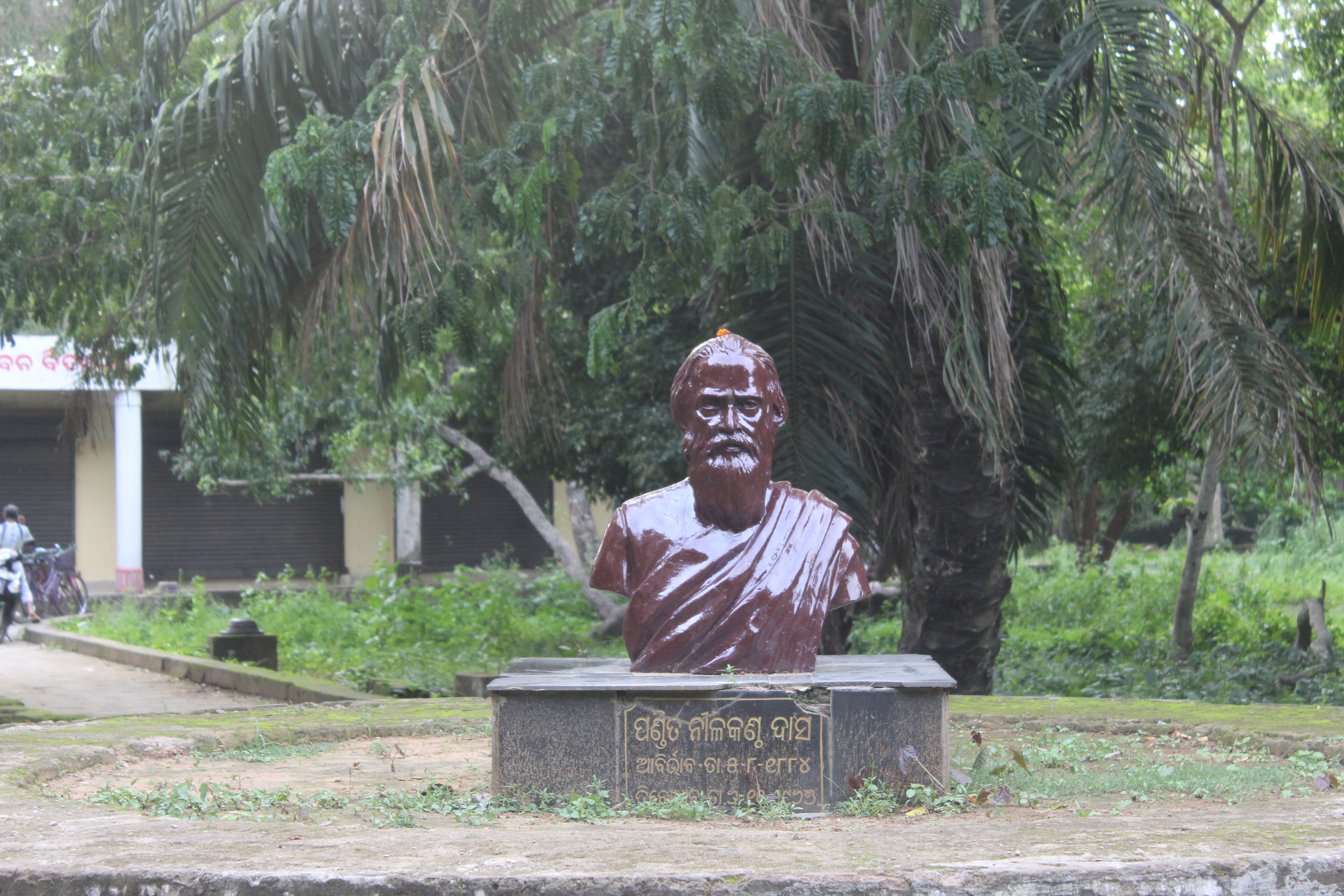 Satyabadi Bakula bana,Odisha, India.